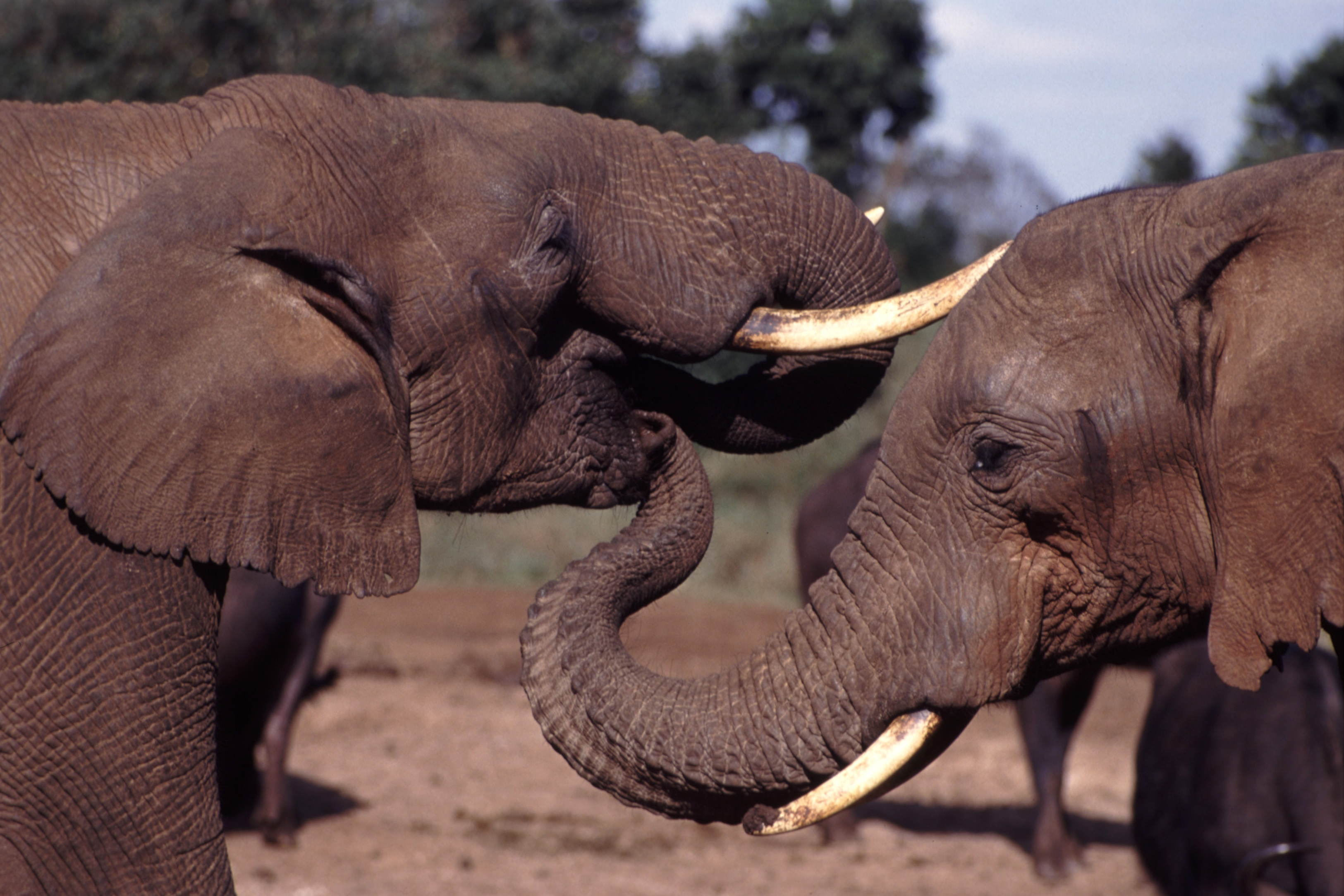 Two elephants, with one putting its trunk in the other's mouth. Taken at the Ark in Tanzania.